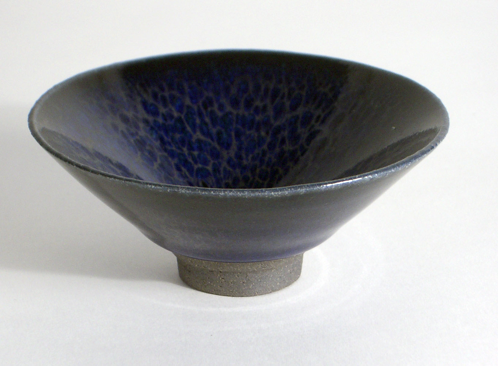 Sake cup by KAMADA Koji with blue tenmoku glaze. The blue color is due to cobalt in the glaze.